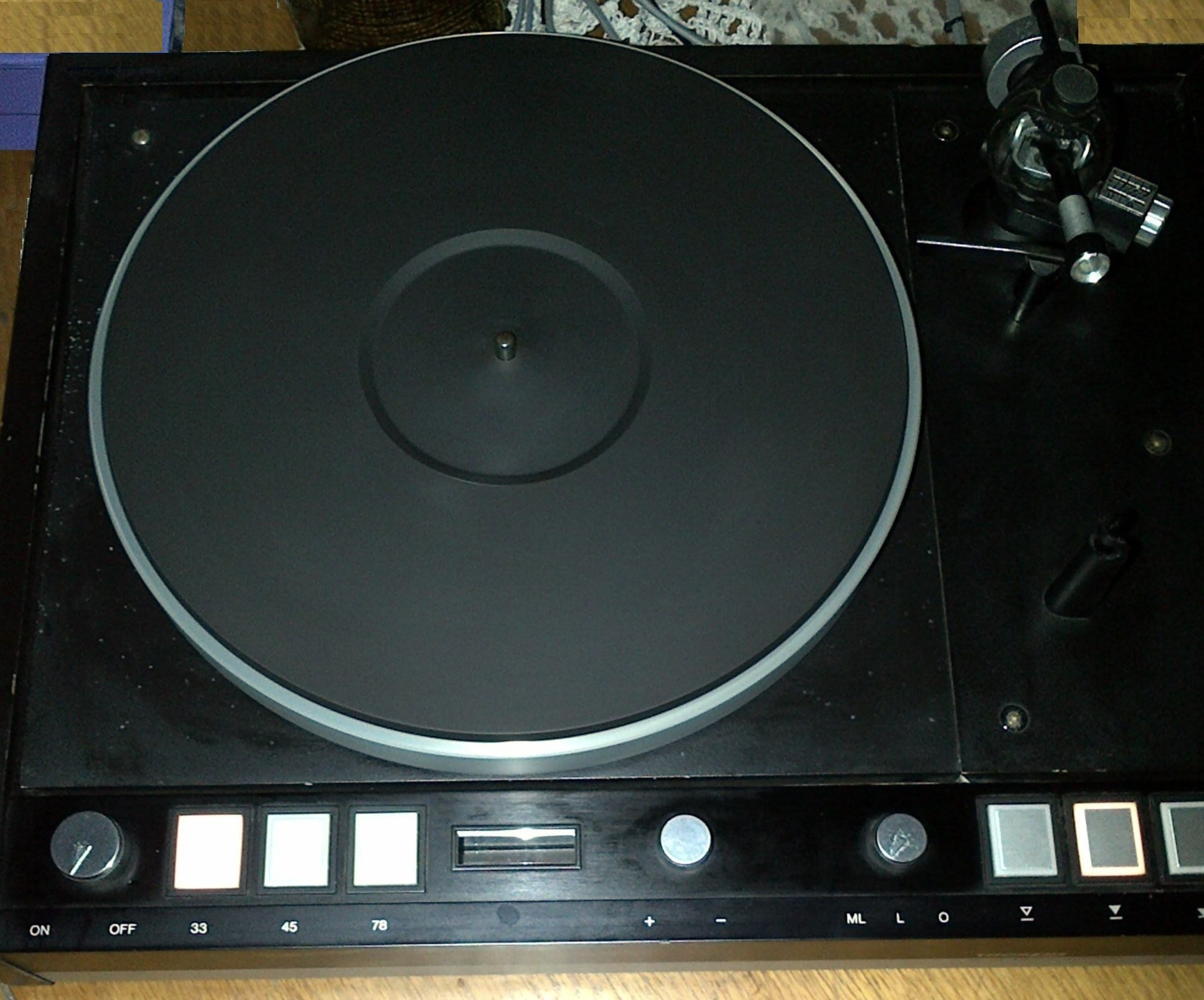 Thorens TD126mkiii